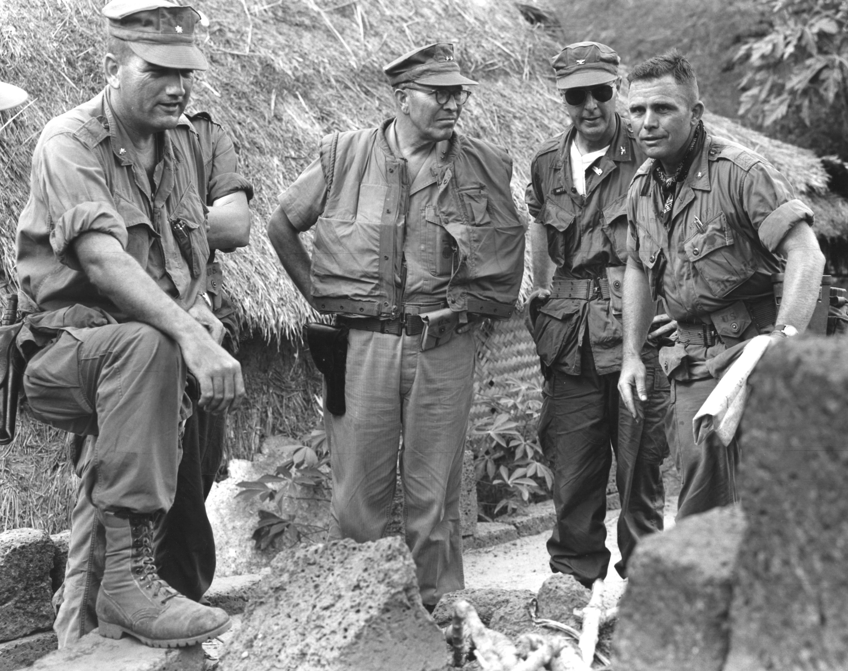 DEFENSE DEPT PHOTO (MARINE CORPS) A373656 OPERATION NEVADA – MG Lewis J. Fields, CG, 1st Marine Division, COL Haffey, CO, 7th Marines, and LTC Utter, CO, 2/7, discusses the results of the operation in Chau Thuan Village